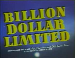 Title screen of the animated short Billion Dollar Limited.